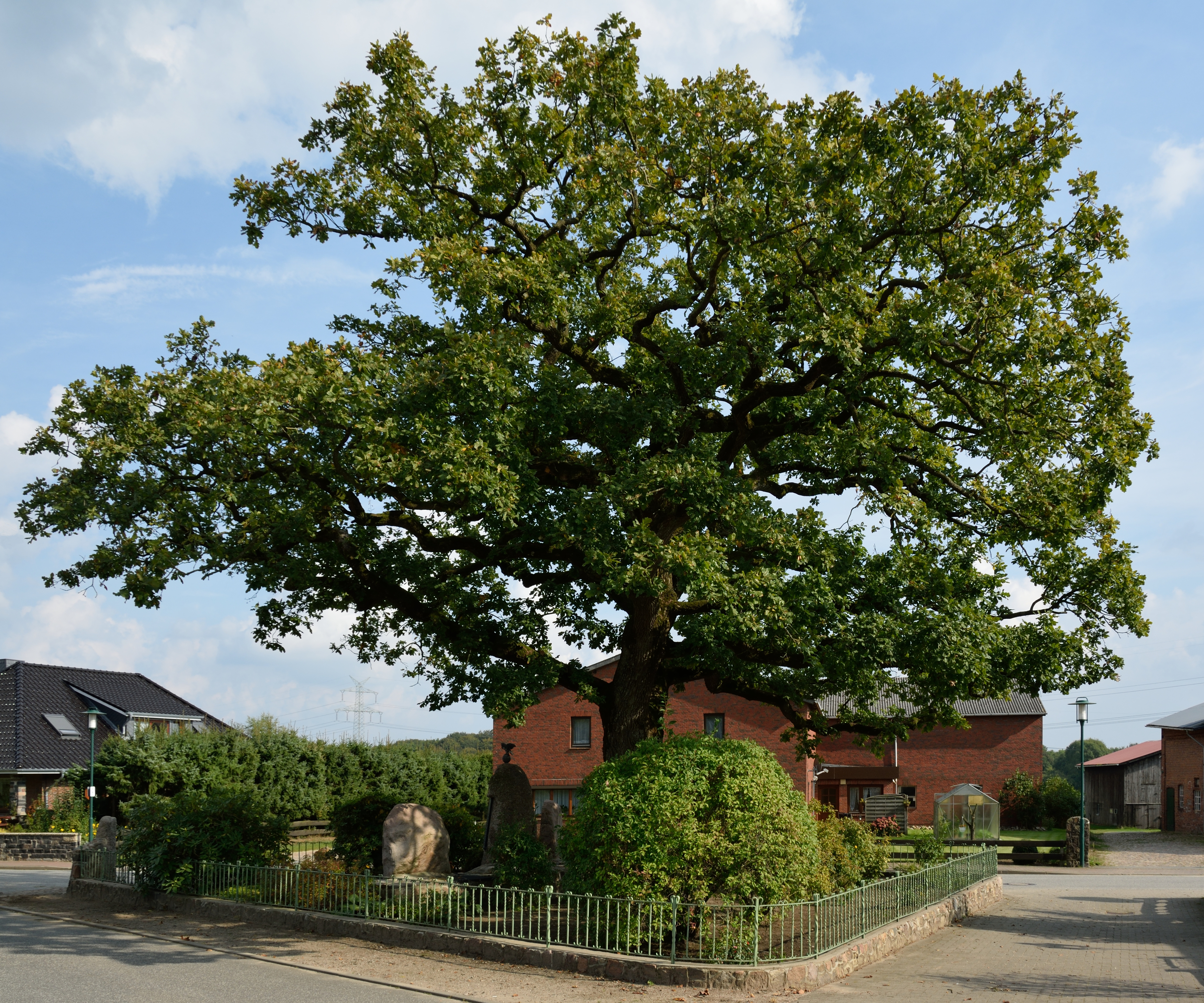 The oak tree at the memorial to the fallen of World Wars in Pöschendorf